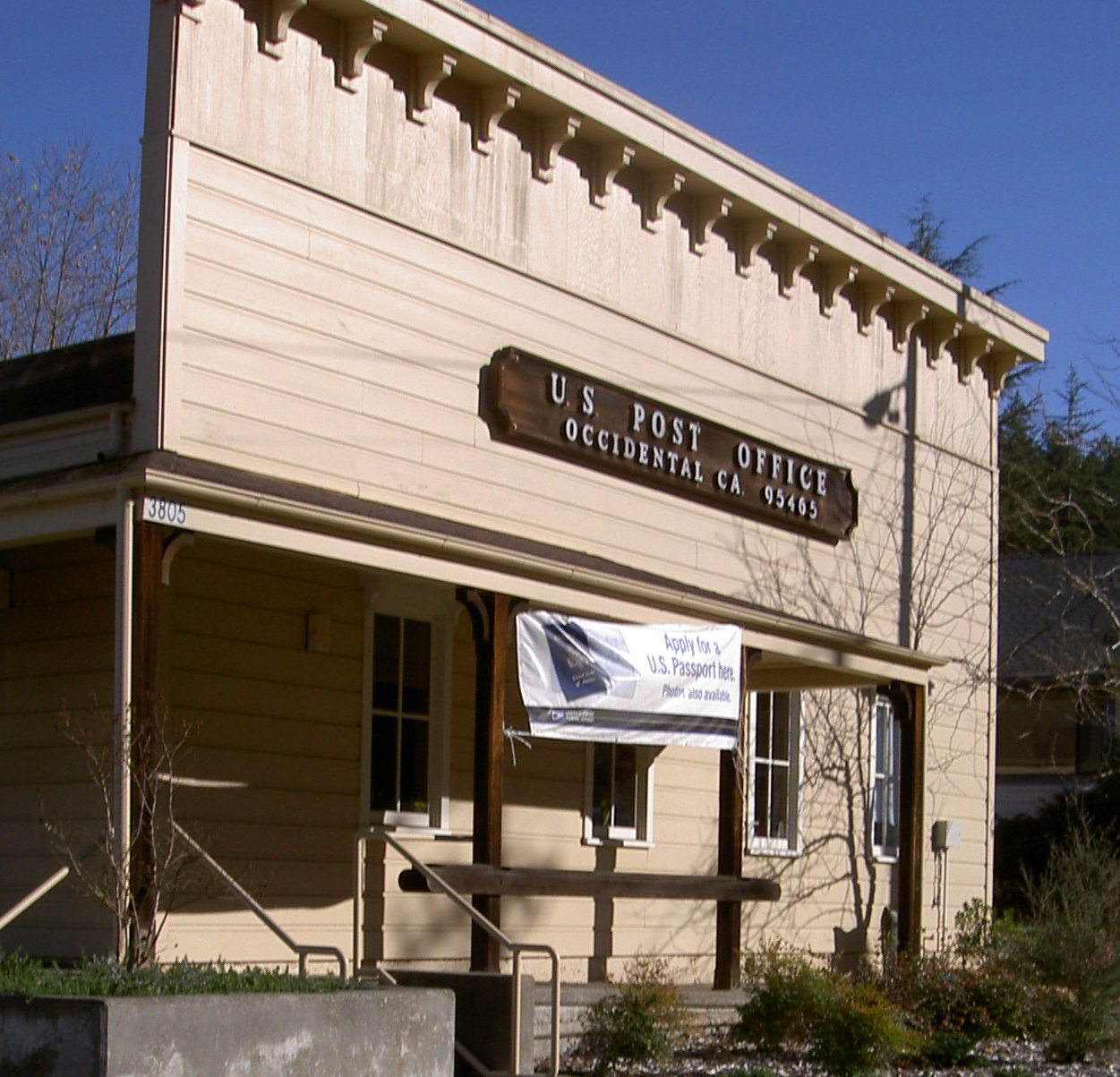 Photo of the Occidental post office, taken by Stephen Gold on December 7, 2007. Cropped using Adobe Photoshop Elements.